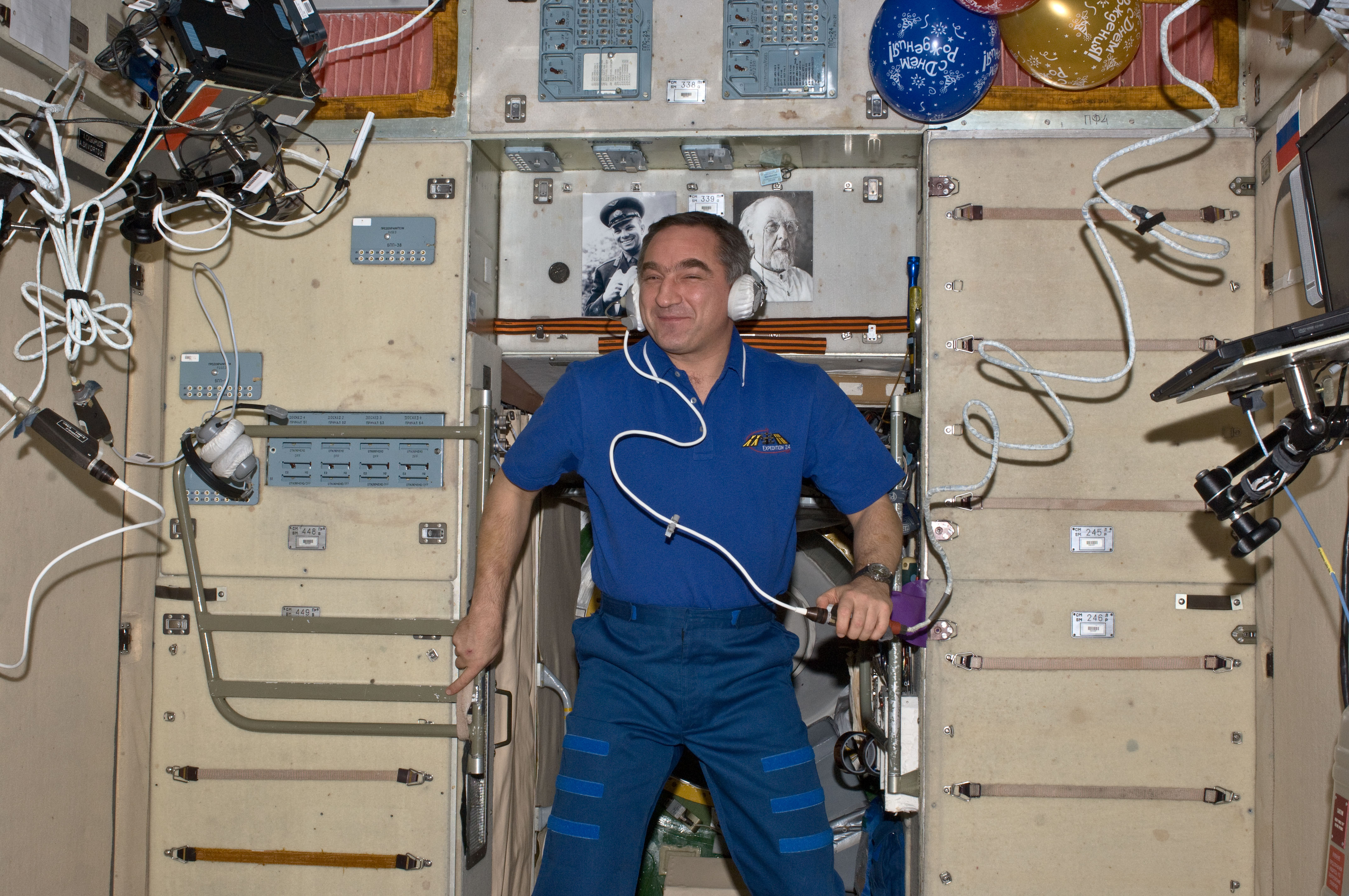 Russian cosmonaut Alexander Skvortsov, Expedition 24 commander, uses a communication system in the Zvezda Service Module of the International Space Station.